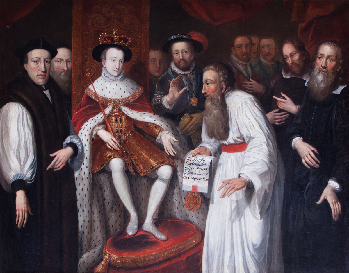 Oil on canvas, 165 x 178 cm (estimated) Collection: Westminster College, University of Cambridge Edward VI gives permission for John a Lasco to set up a congregation for European Protestants in London in 1550. This painting is thought to date from the seventeenth century, and new evidence suggests that the painter was J.